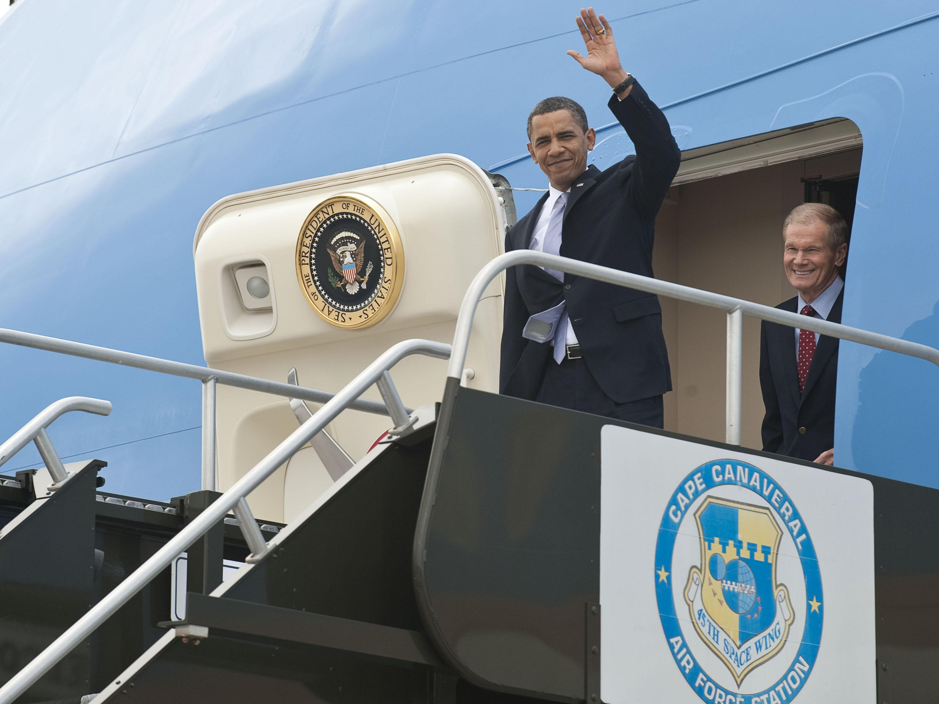 President Barack Obama waves hello as he exits of Air Force One along with Senator Bill Nelson after landing at the NASA Kennedy Space Center in Cape Canaveral, Fla. on Thursday, April 15, 2010. Obama visited Kennedy to deliver remarks on the bold new course the administration is charting to maintain U.S. leadership in human space flight. During a speech at the center, President Obama said, "As president, I believe space exploration is not a luxury, not an afterthought, an essential part of the quest."